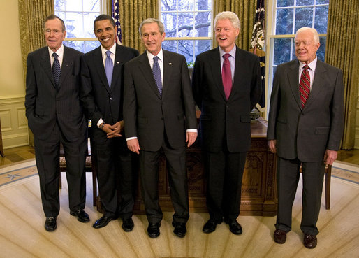 In January 2009, President of the United States of America, George W. Bush invited then President-Elect Barack Obama and former Presidents George H.W. Bush, Bill Clinton, and Jimmy Carter for a Meeting and Lunch at The White House. Photo taken in the Oval Office at The White House.